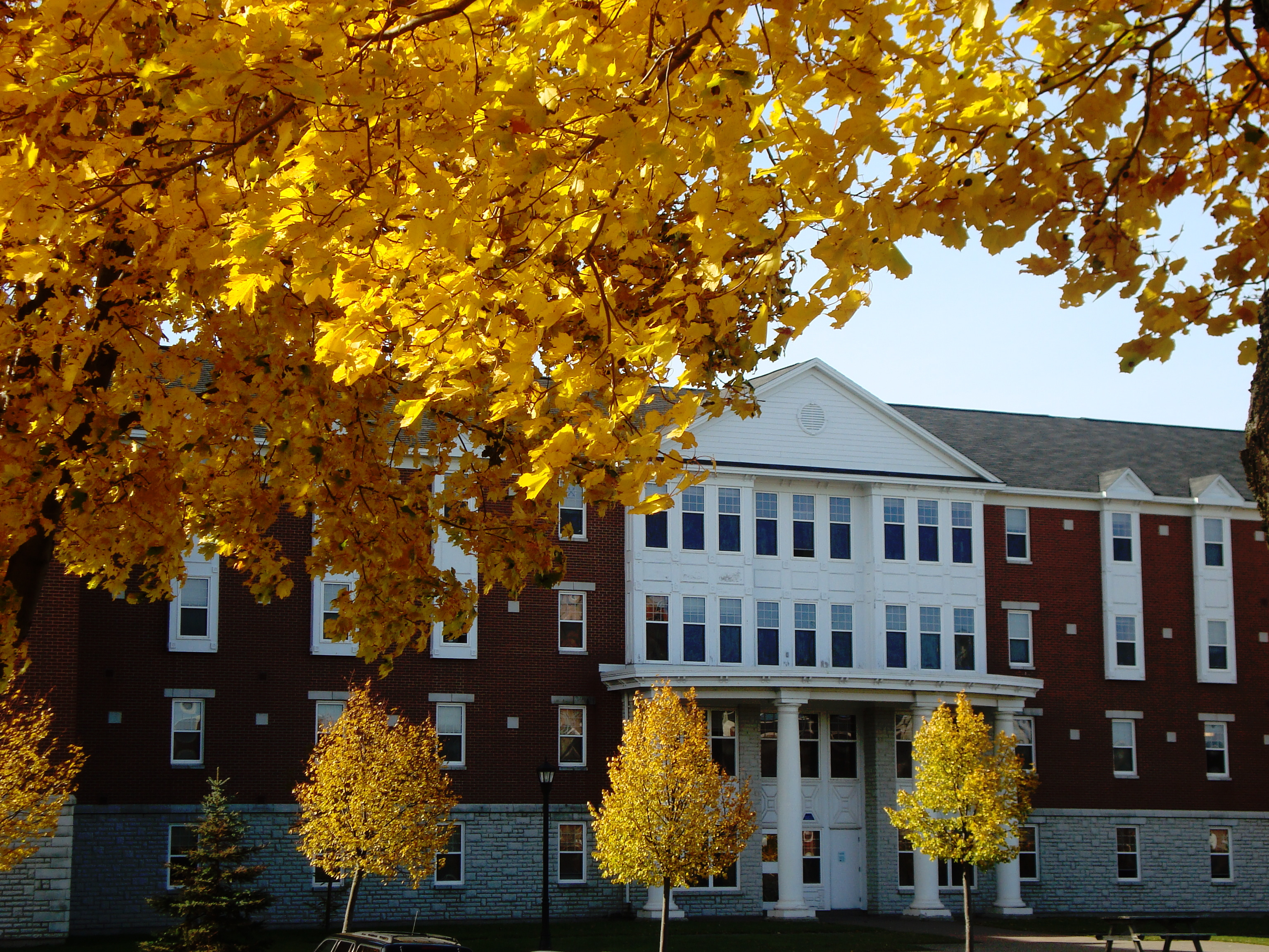 Power Hall Apartment Style Housing